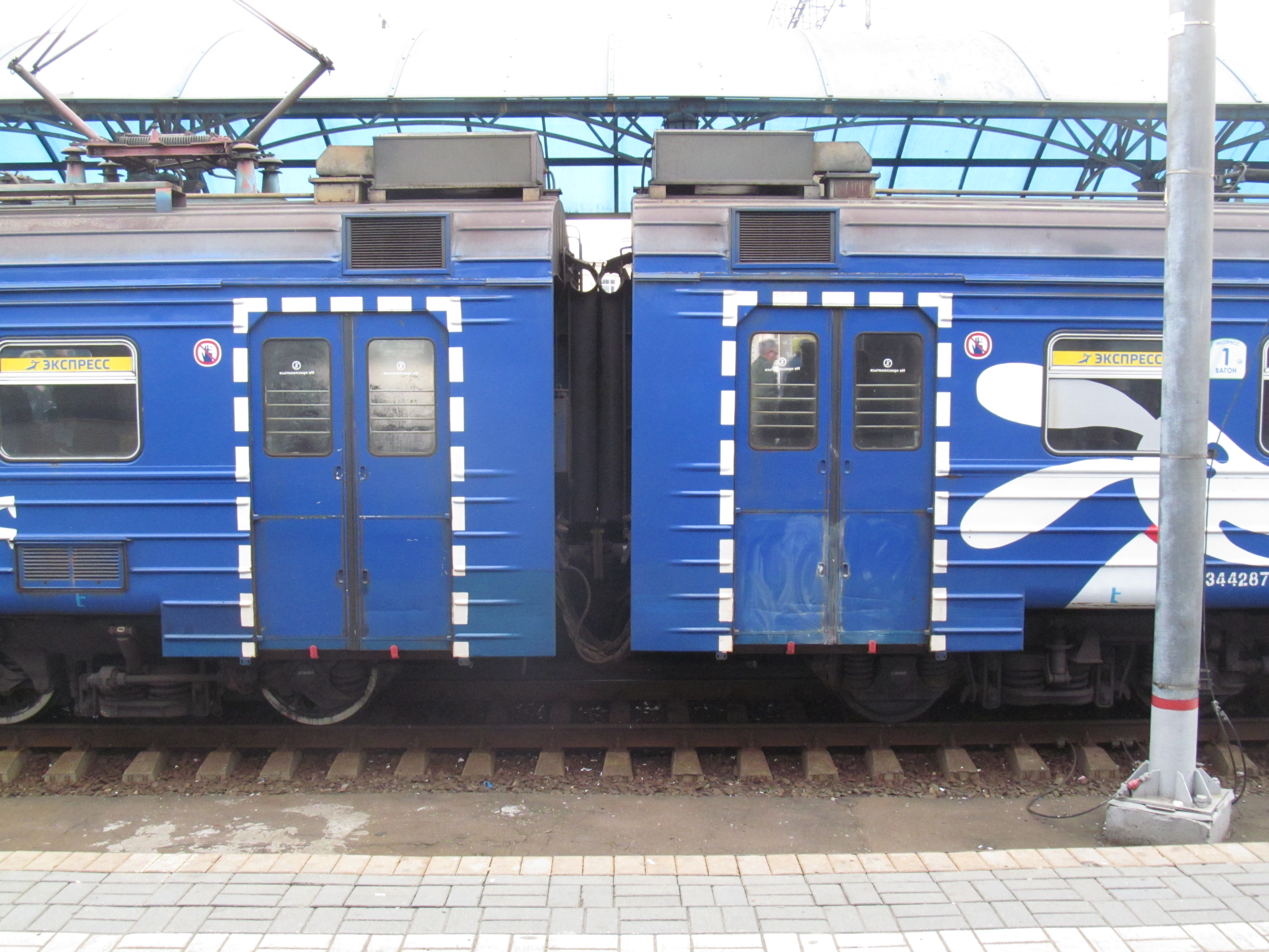 ED4M-0316 EMU. Inter-car gangway and entry doors